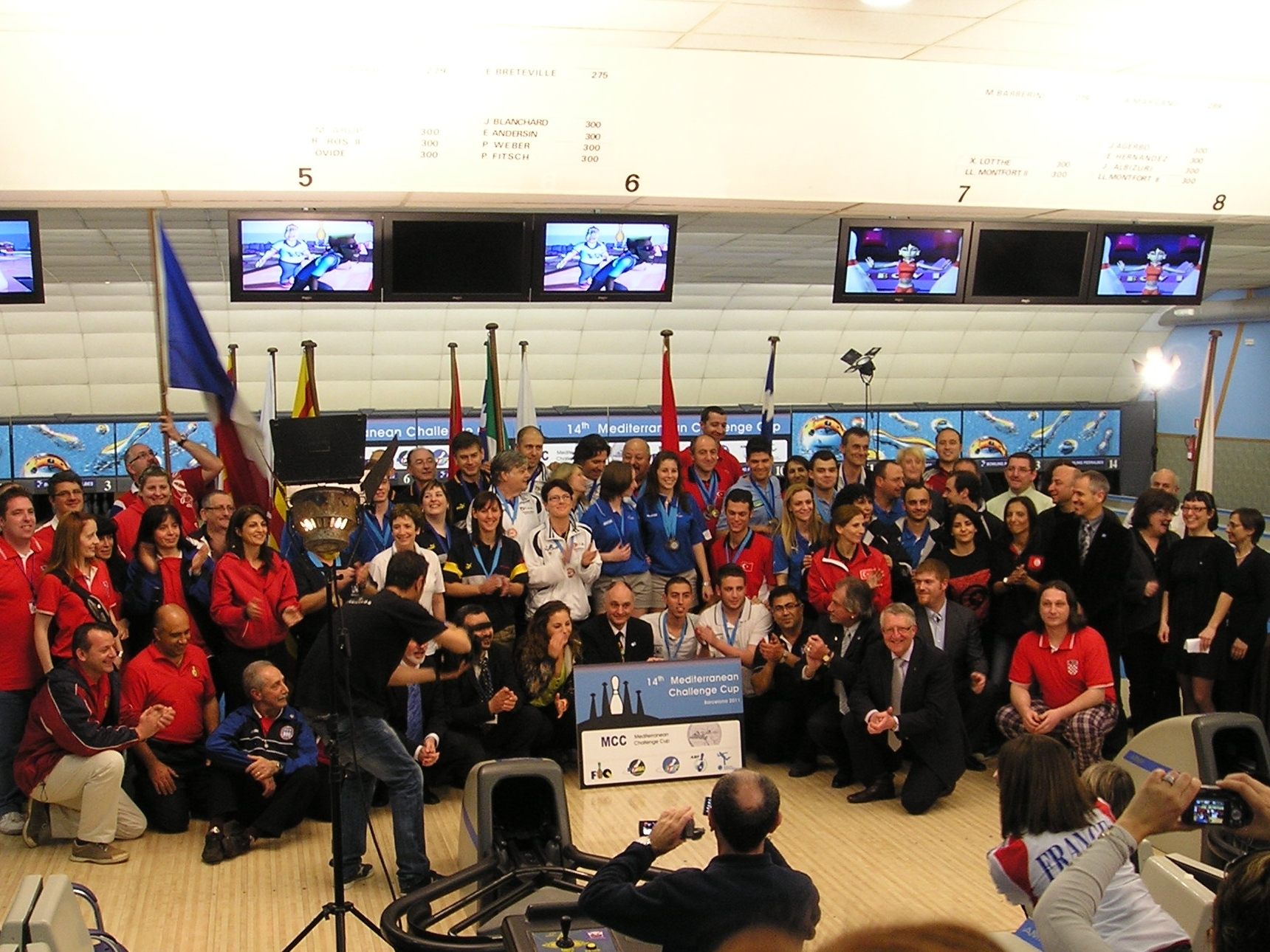 2011 Mediterranean Challenge Cup in Barcelona (Catalonia)